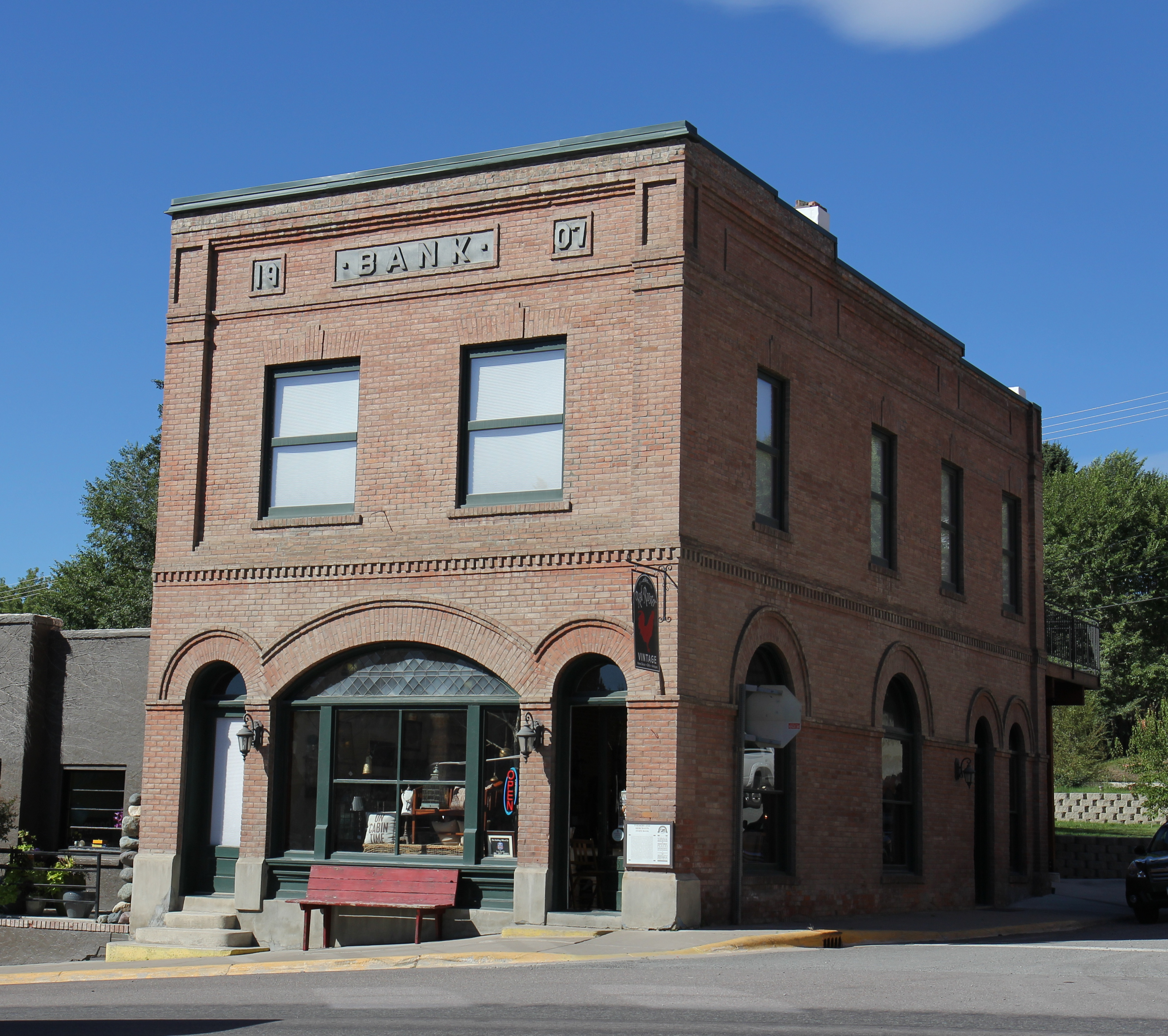 Looking west at the Farmers and Merchants State Bank in Eureka, Montana.